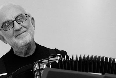 Gianni Coscia in Aarhus Denmark 2012